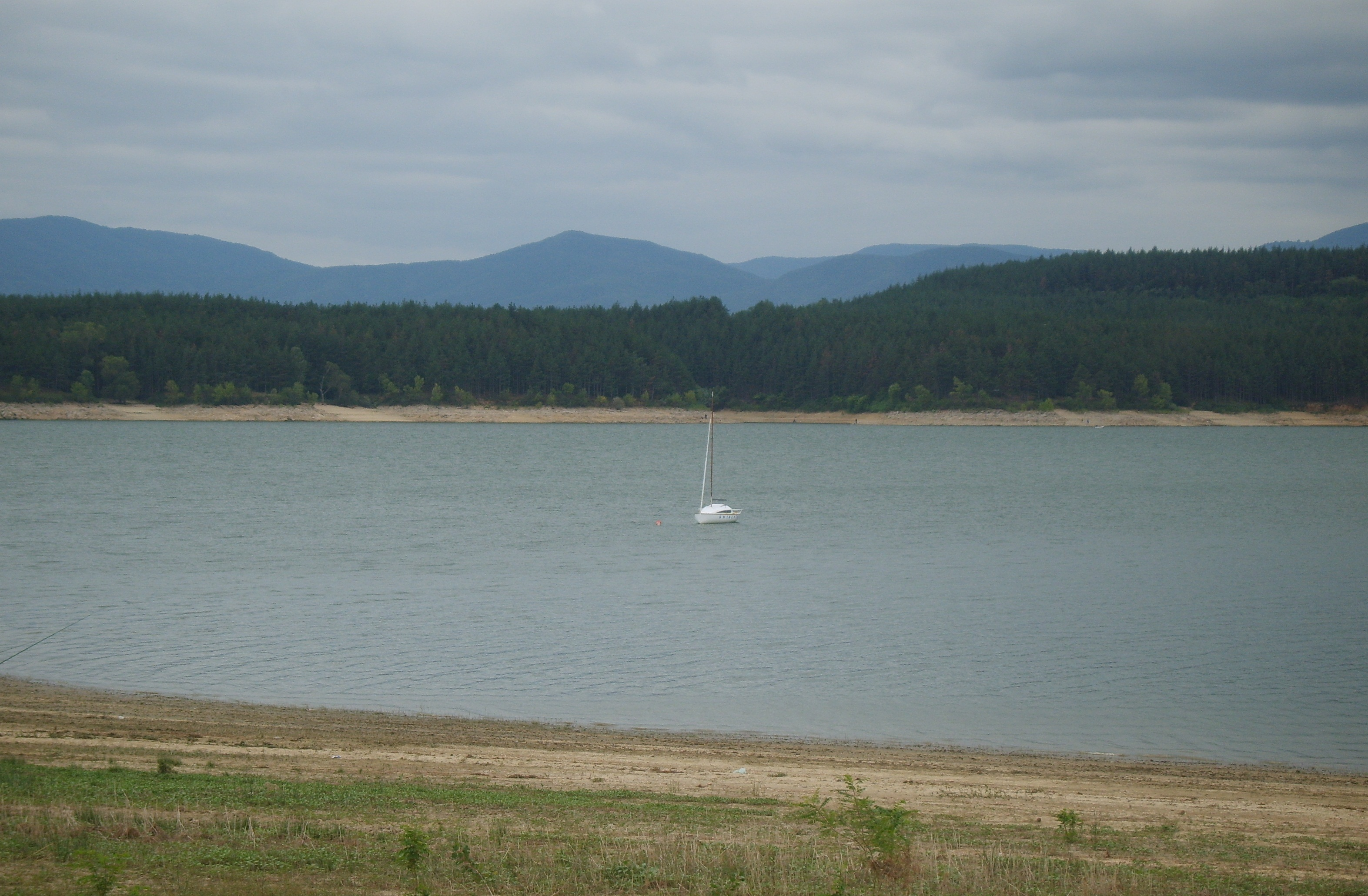 Sailing boat in Koprinka dam.